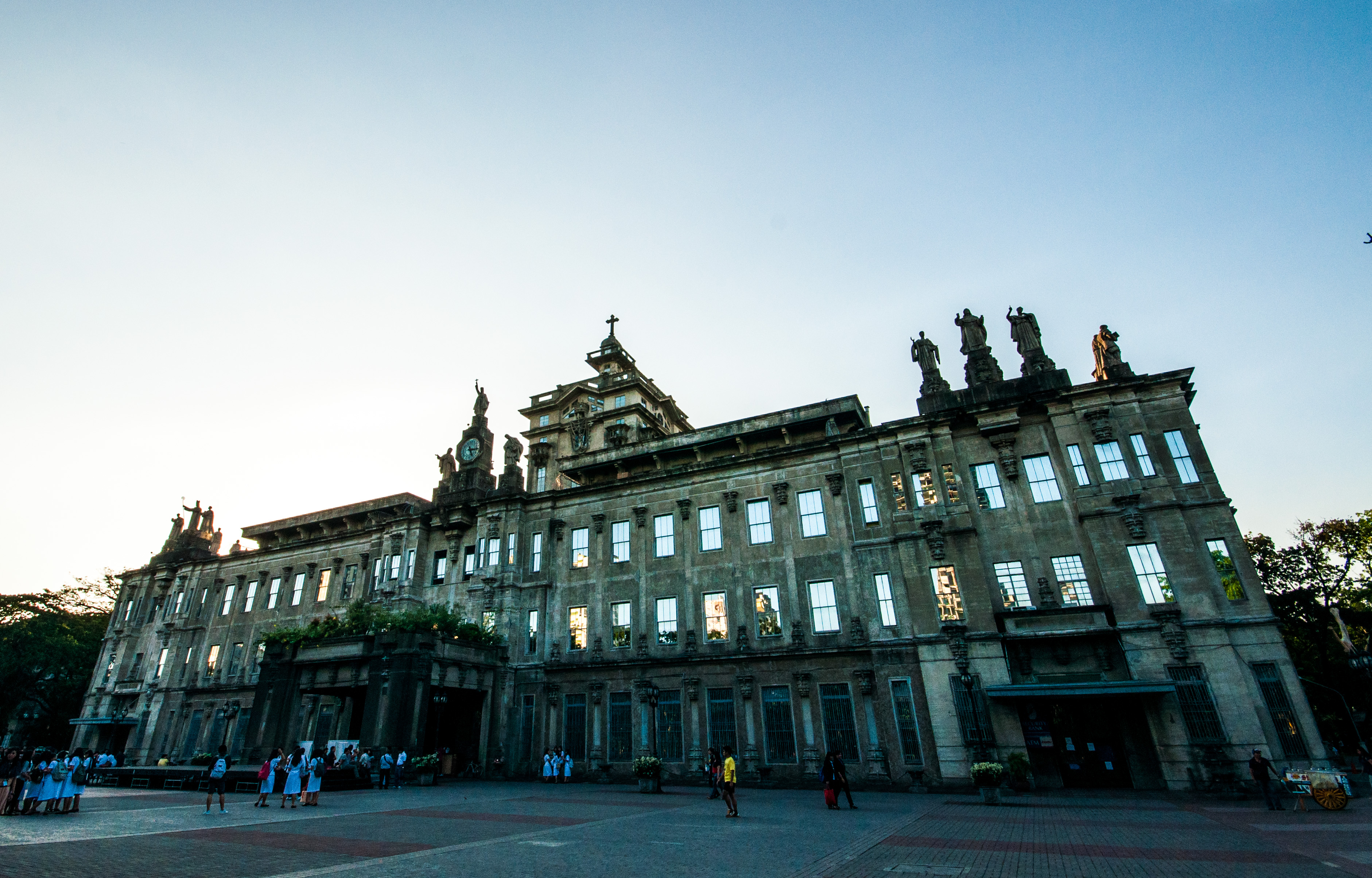 The main building of University of Santo Tomas in Espana, Sampaloc Manila, Philippines. A Renaissance revival architecture.